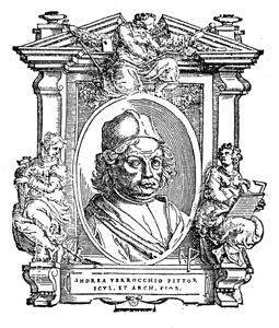 Illustratio from "Le Vite" by Giorgio Vasari, edition of 1568. For the artist portrayed see filename